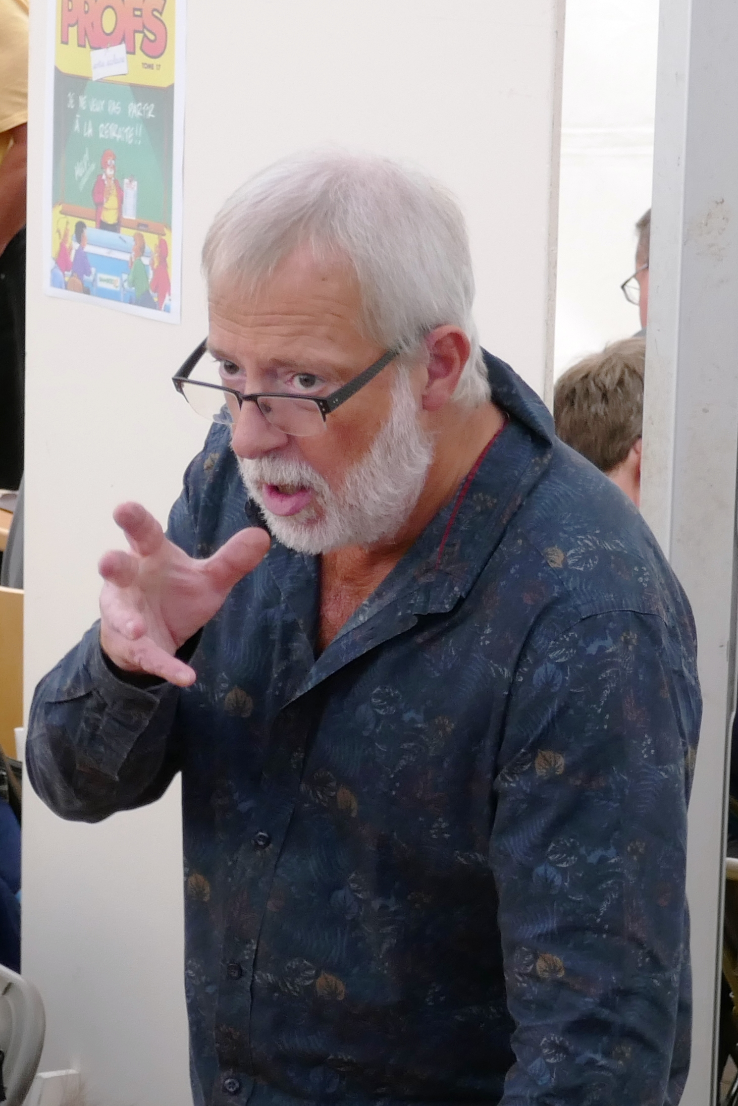 Batem au Festival de la BD de Buc 2016.